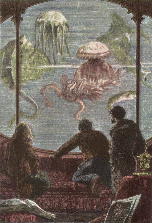 An illustration from Jules Verne's novel "Twenty Thousand Leagues Under the Sea" (1866-69) drawn by George Roux.